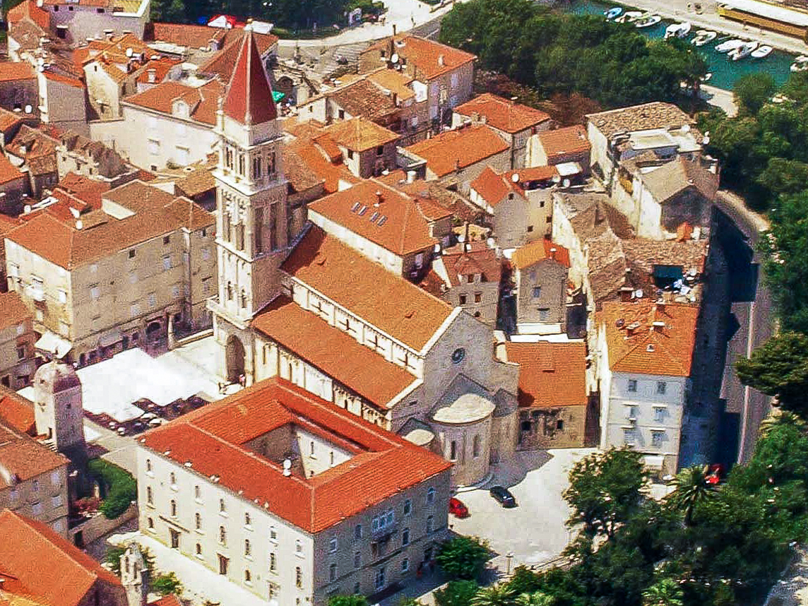 Cathedral of St. Lawrence in Trogir. Air view